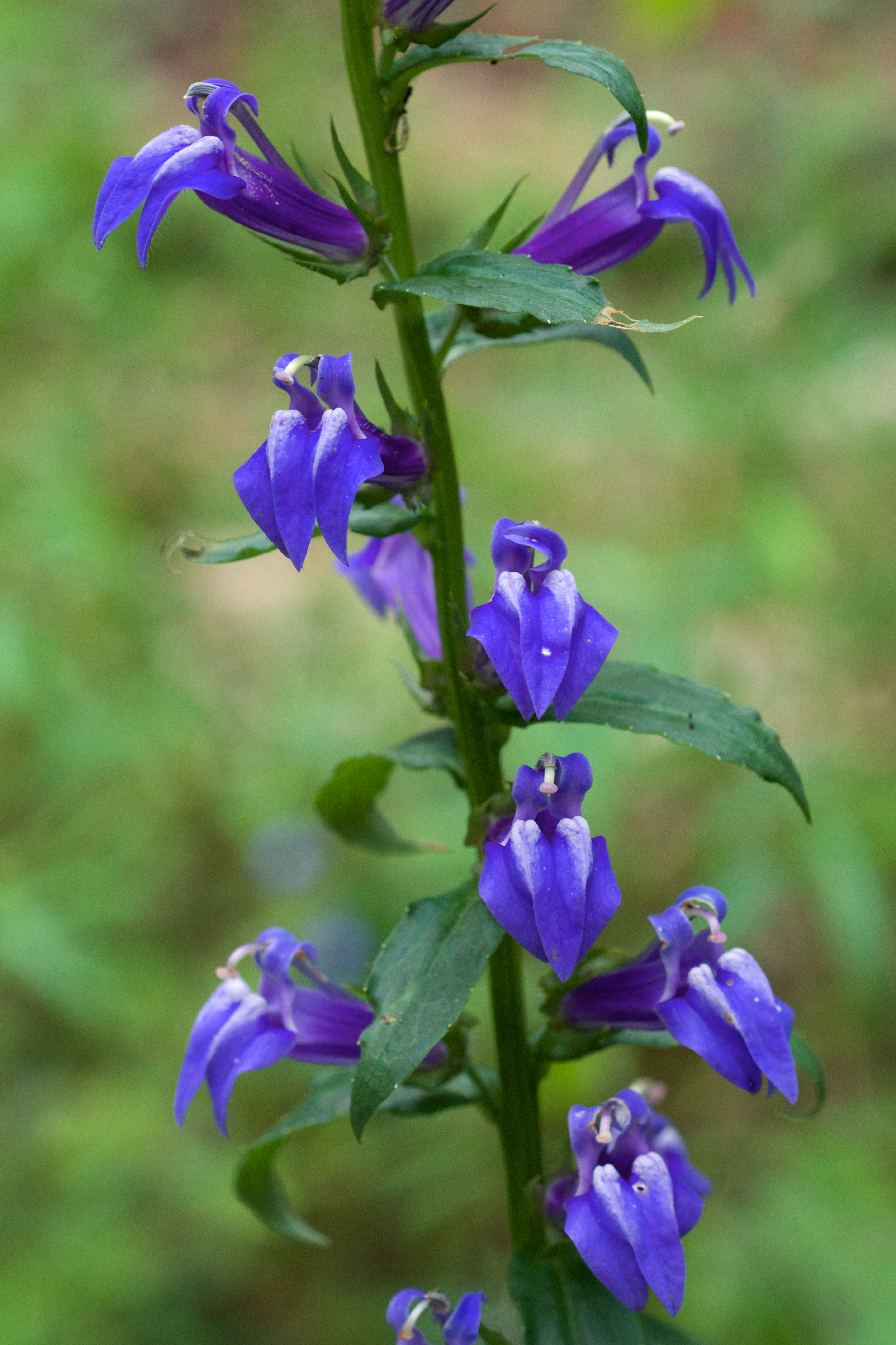 Species from eastern North America Common name: Great Blue Lobelia Photographed on the North Sylamore Creek Trail, Ozark National Forest, Stone County, Arkansa